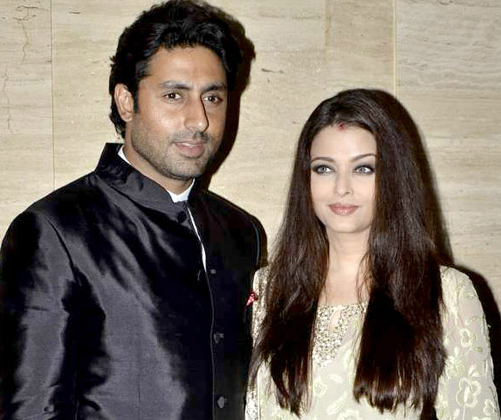 Abhishek Bachchan(left) and Aishwarya Rai Bachchan(right) at actress Asin's birthday party, October 2013.